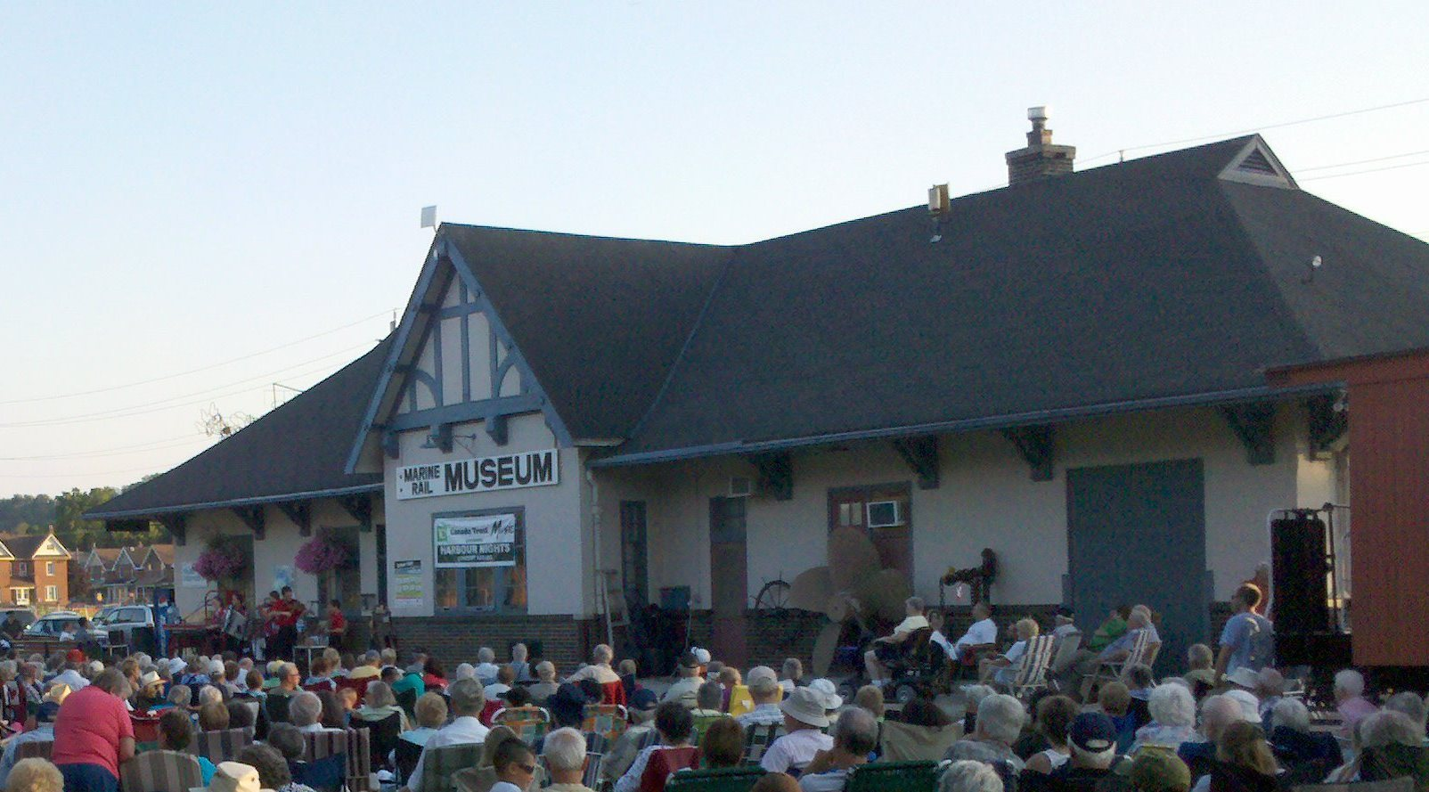 Marine and Rail Museum in Owen Sound.